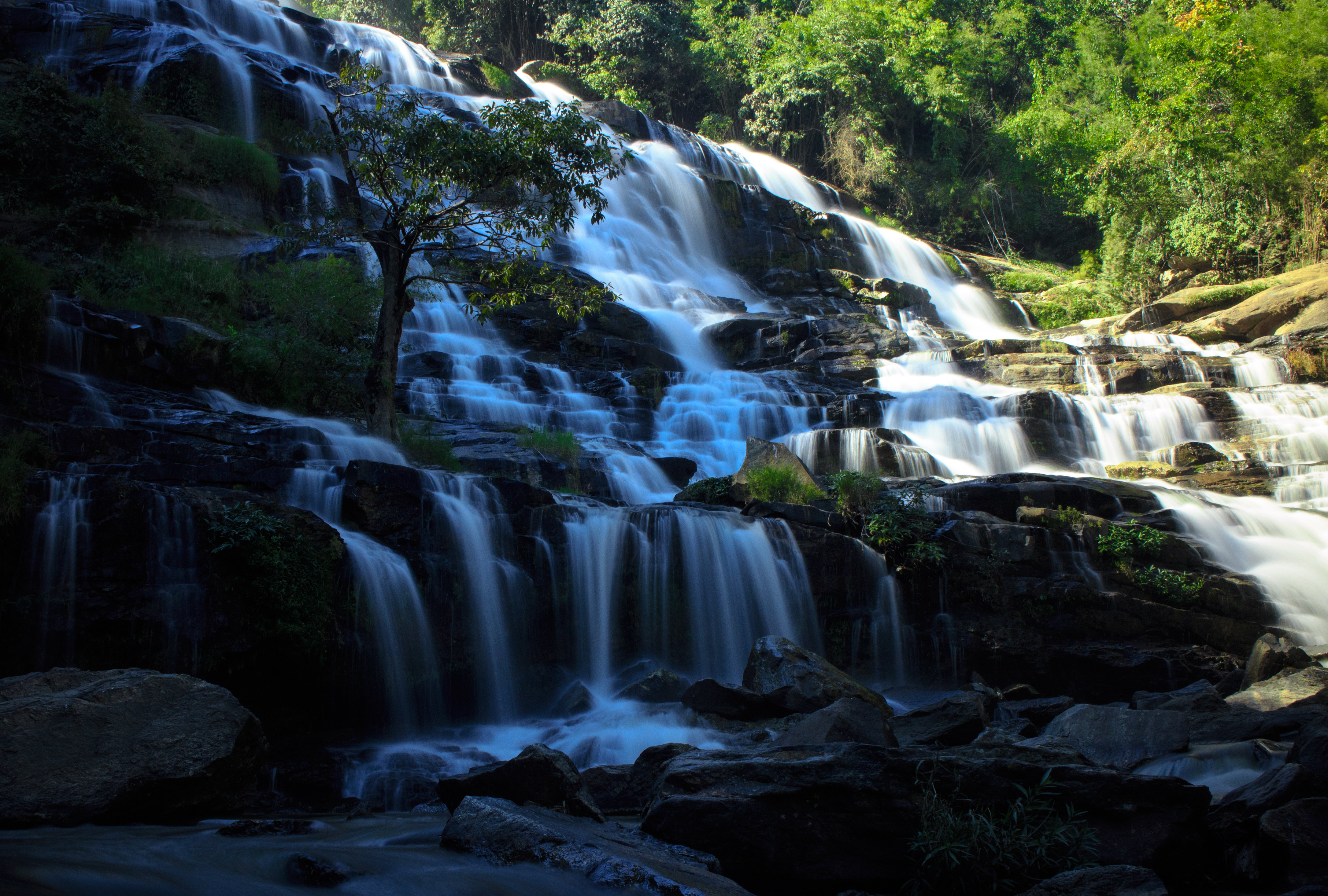 Mae Ya Waterfall in Doi Inthanon National Park, Chiang Mai, Thailand